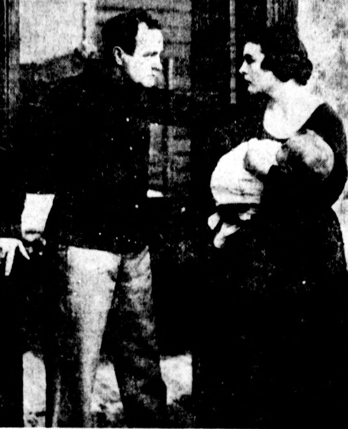 Jim Bludso is a 1917 drama film directed by Tod Browning. This is a scene that was depicted in a newspaper.